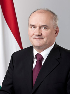 Csaba Hende, Hungarian politician, Minister of Defence in the Second Cabinet of Viktor Orbán